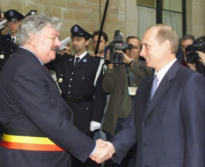 BRUSSELS. President Putin with Brussels Mayor Freddy Thielemans outside the Town Hall.